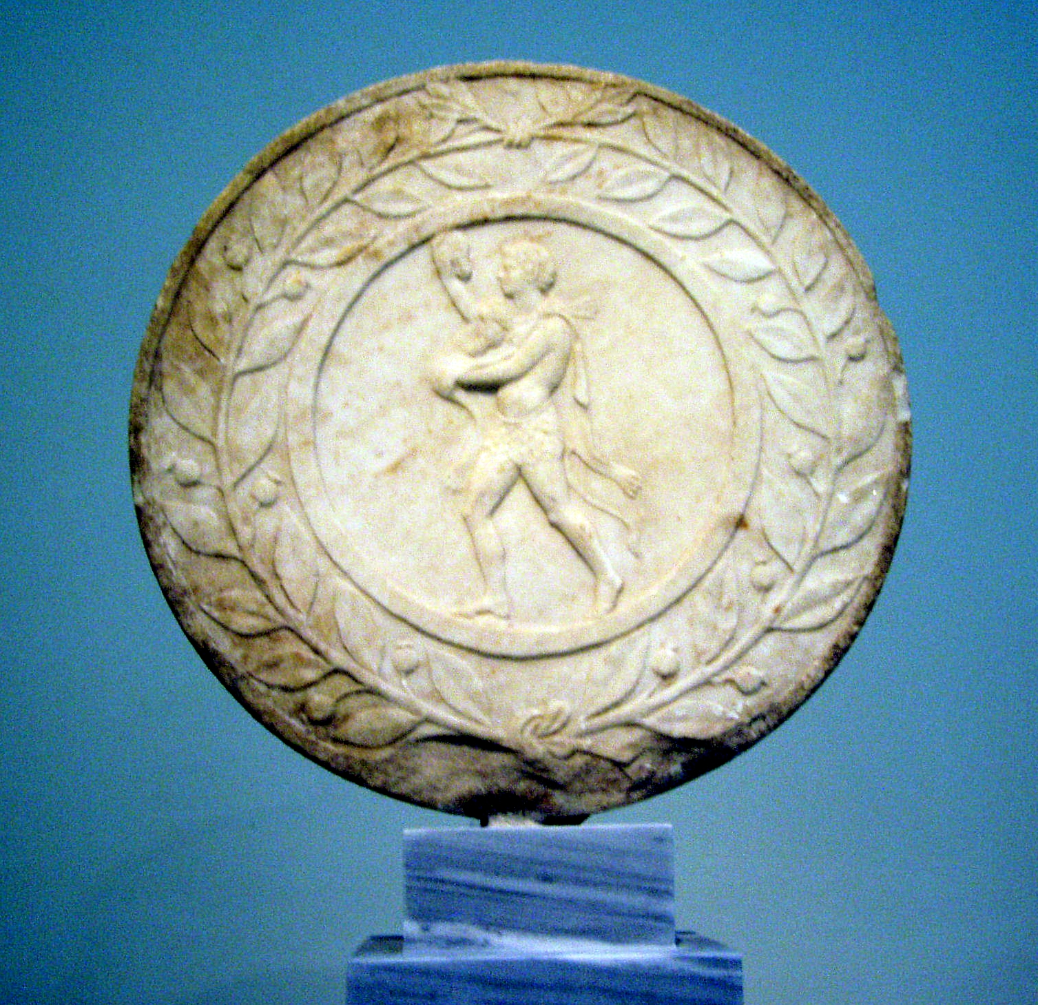 Ancient Roman round relief (oscillum) showing a satyr harvesting grapes. Augustan age (29 a.C. - 19 d.C.). Currently on display in Room 31 of the National Archaeological Museum in Athens, Nr. 3635.